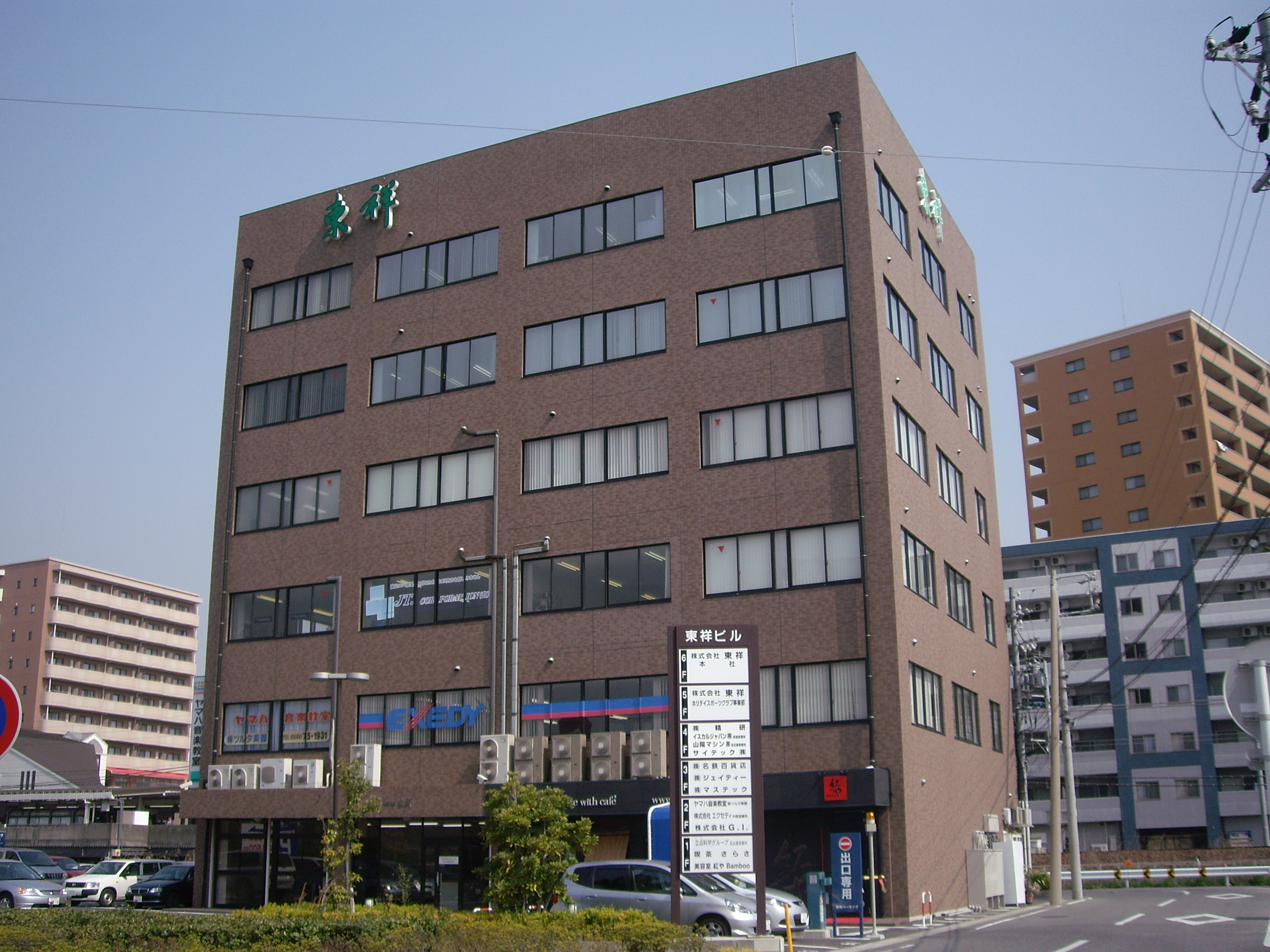 Tosho building in Anjo, Aichi